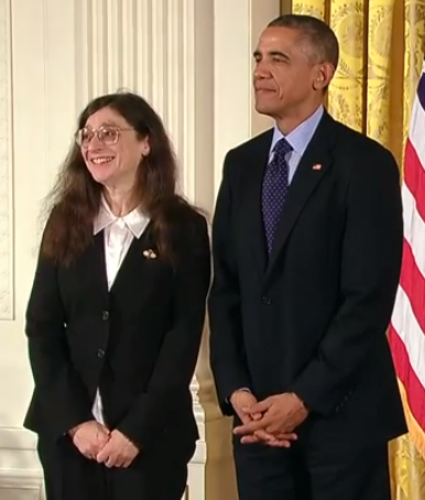 Entomologist May Berenbaum receives the National Medal of Science from U.S. President Barack Obama, Nov. 20, 2014. Award citation: "For pioneering studies on chemical coevolution and the genetic basis of insect-plant interactions, and for enthusiastic commitment to public engagement that inspires others about the wonders of science."